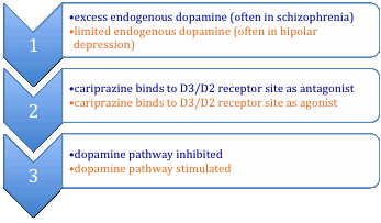 description of how cariprazine works as an antagonist or agonist